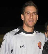 Claudio Perri in 2007 with St. Catharines Roma Wolves